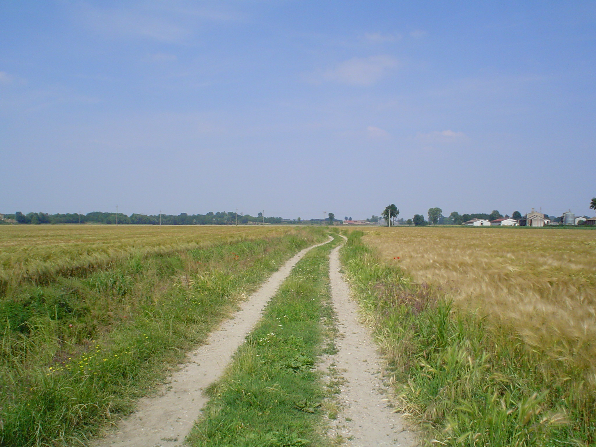 Wheat field in Fombio (Lodi, Italy)